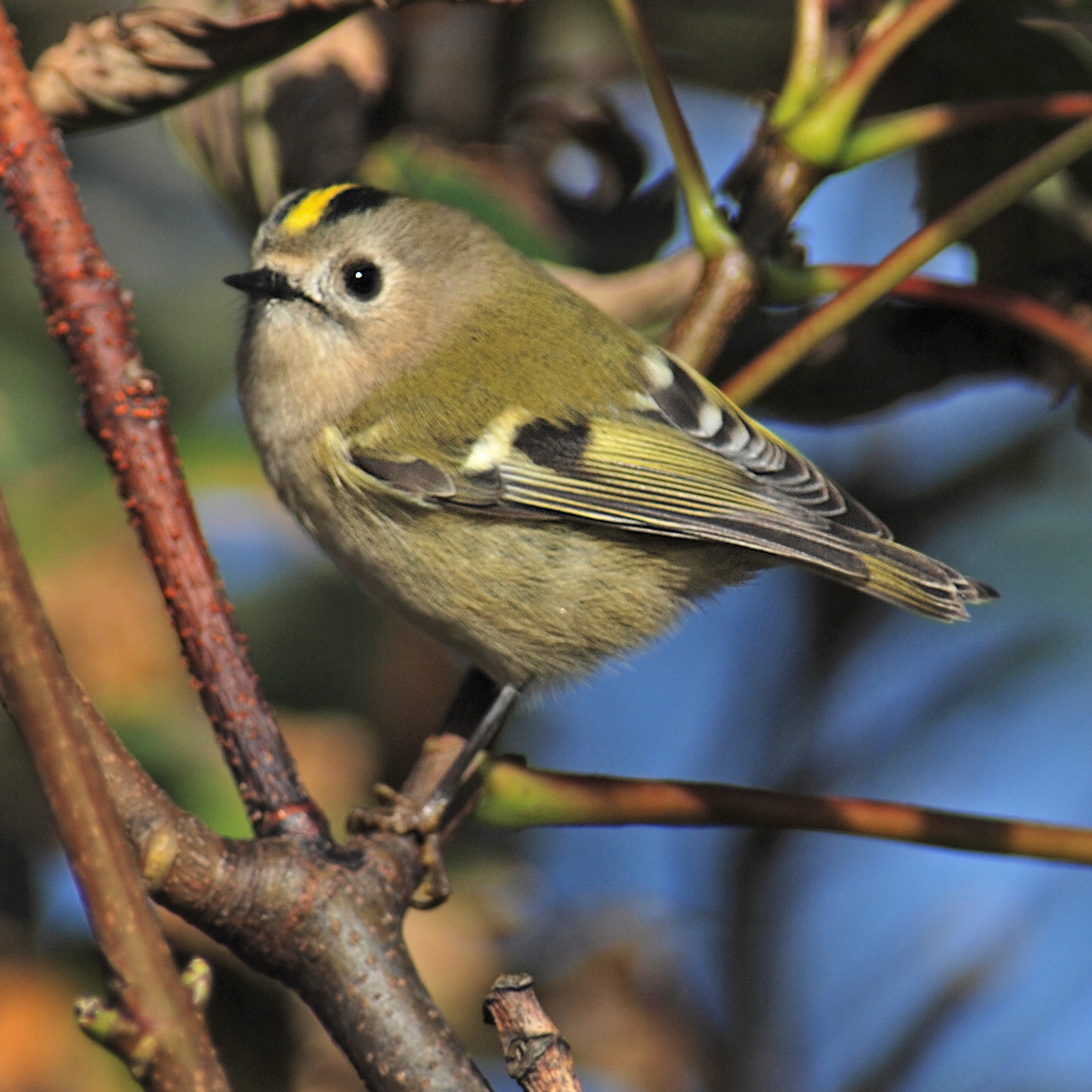 goldcrest in leaves 4